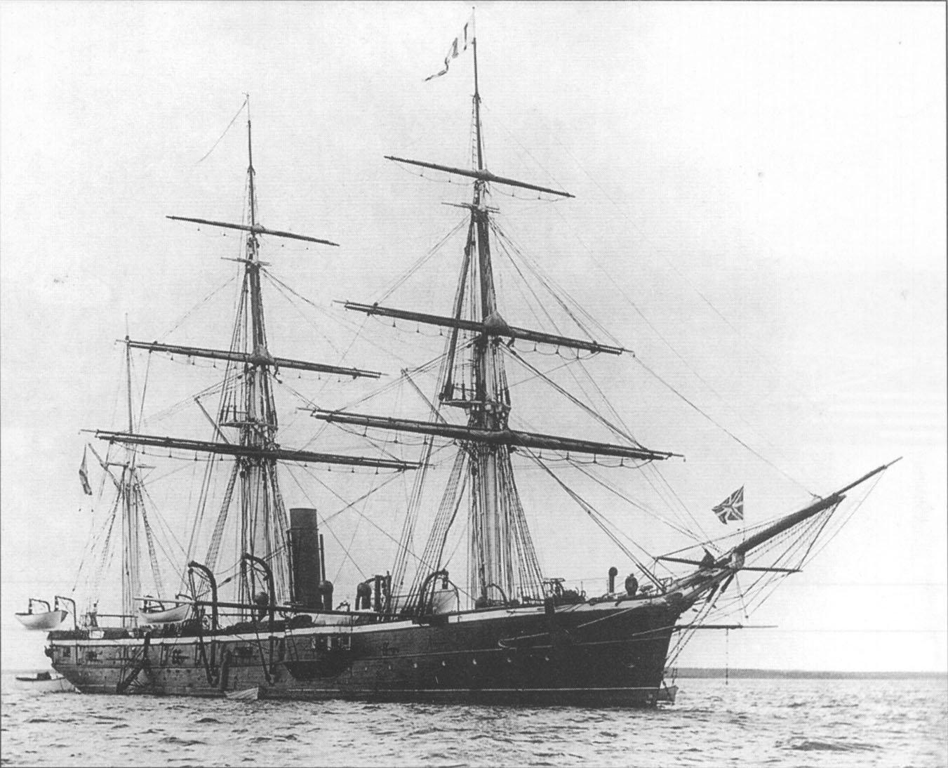 Imperial Russian clipper Oprichnik.